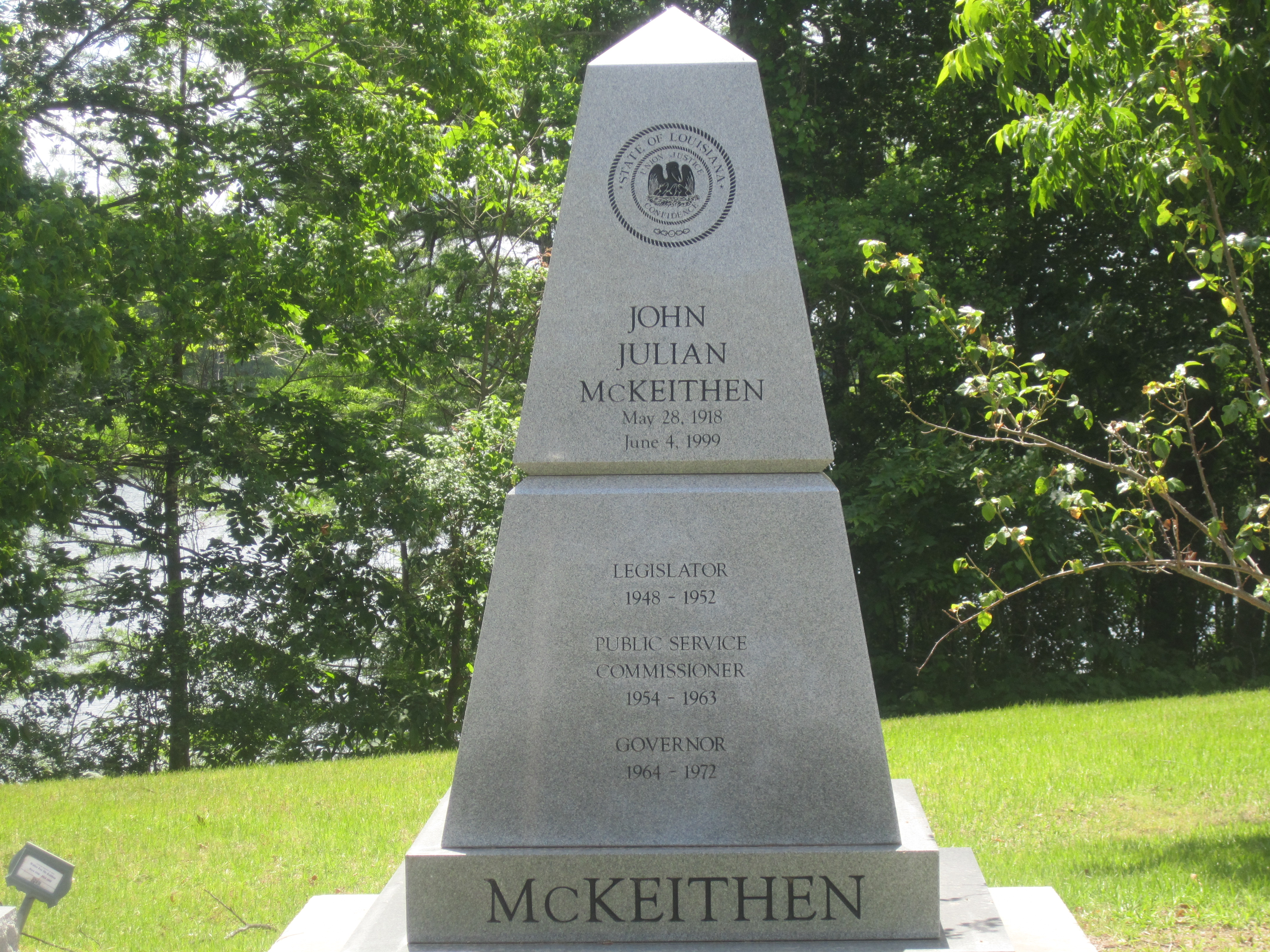 I took photo of John McKeithen monument in Caldwell Parish, LA, with Canon camera.